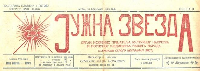 Juzna Zvezda 13 September 1924